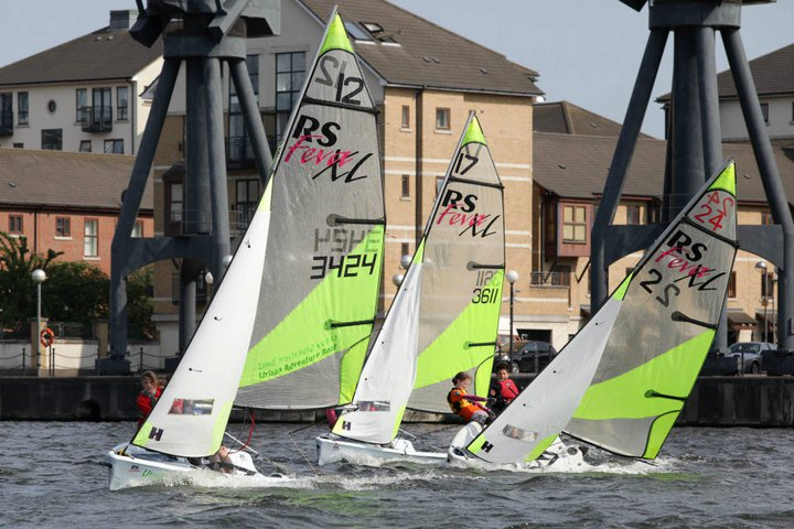 RS Feva Class at the London Youth Games Regatta